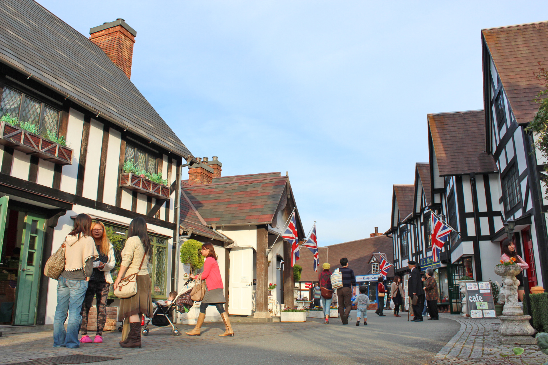 Shuzenji Nijinosato's British Village in Izu, Shizuoka Prefecture, Japan